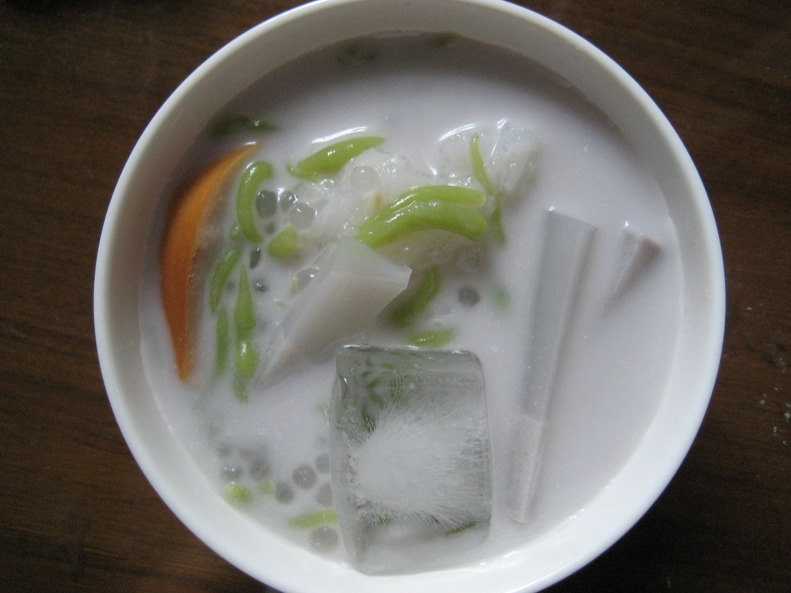 Shweyin Aye - agar jelly, sago, tapioca, bread, coconut milk and sugar with ice